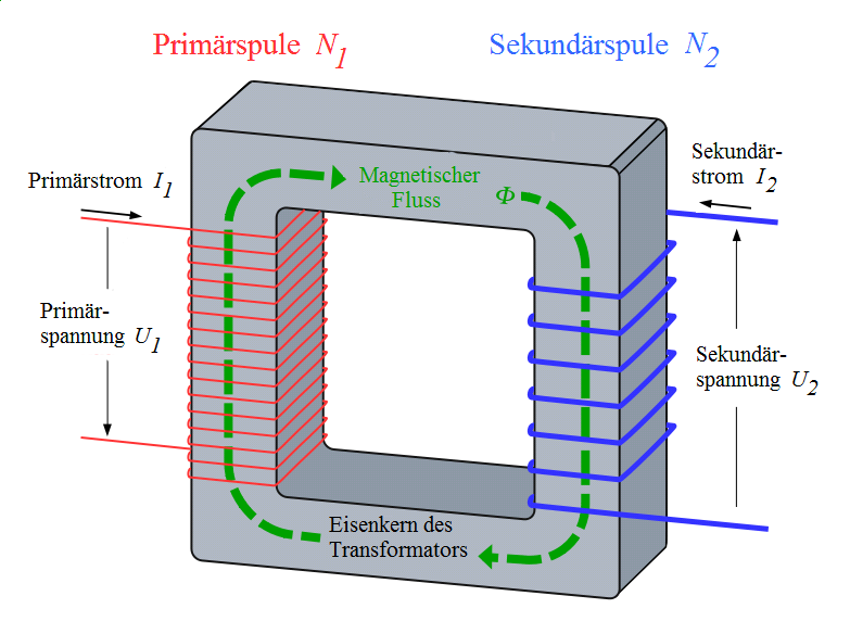 Transformer oblique view